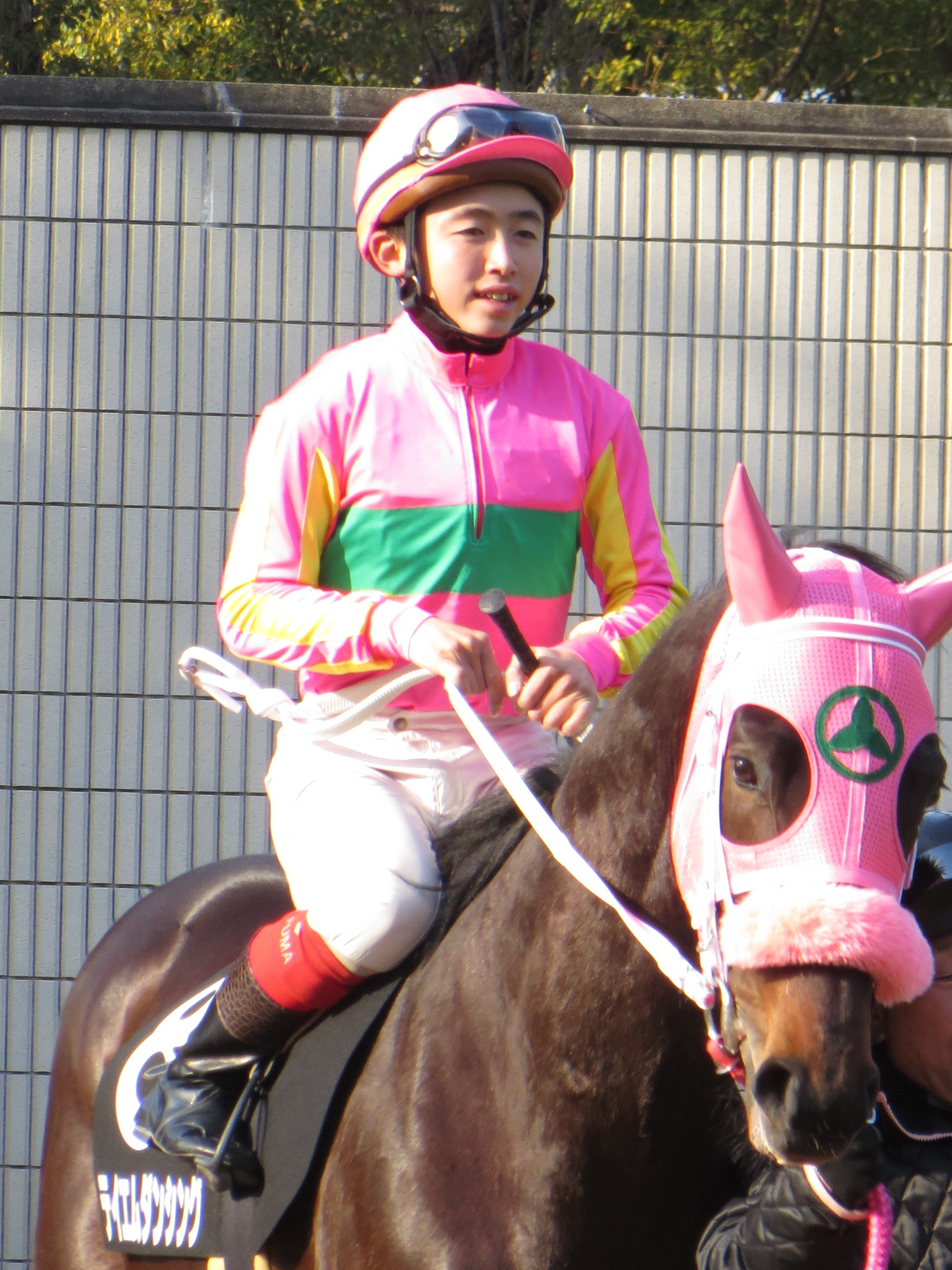 Fuma Matsuwaka (Jockey from Japan).